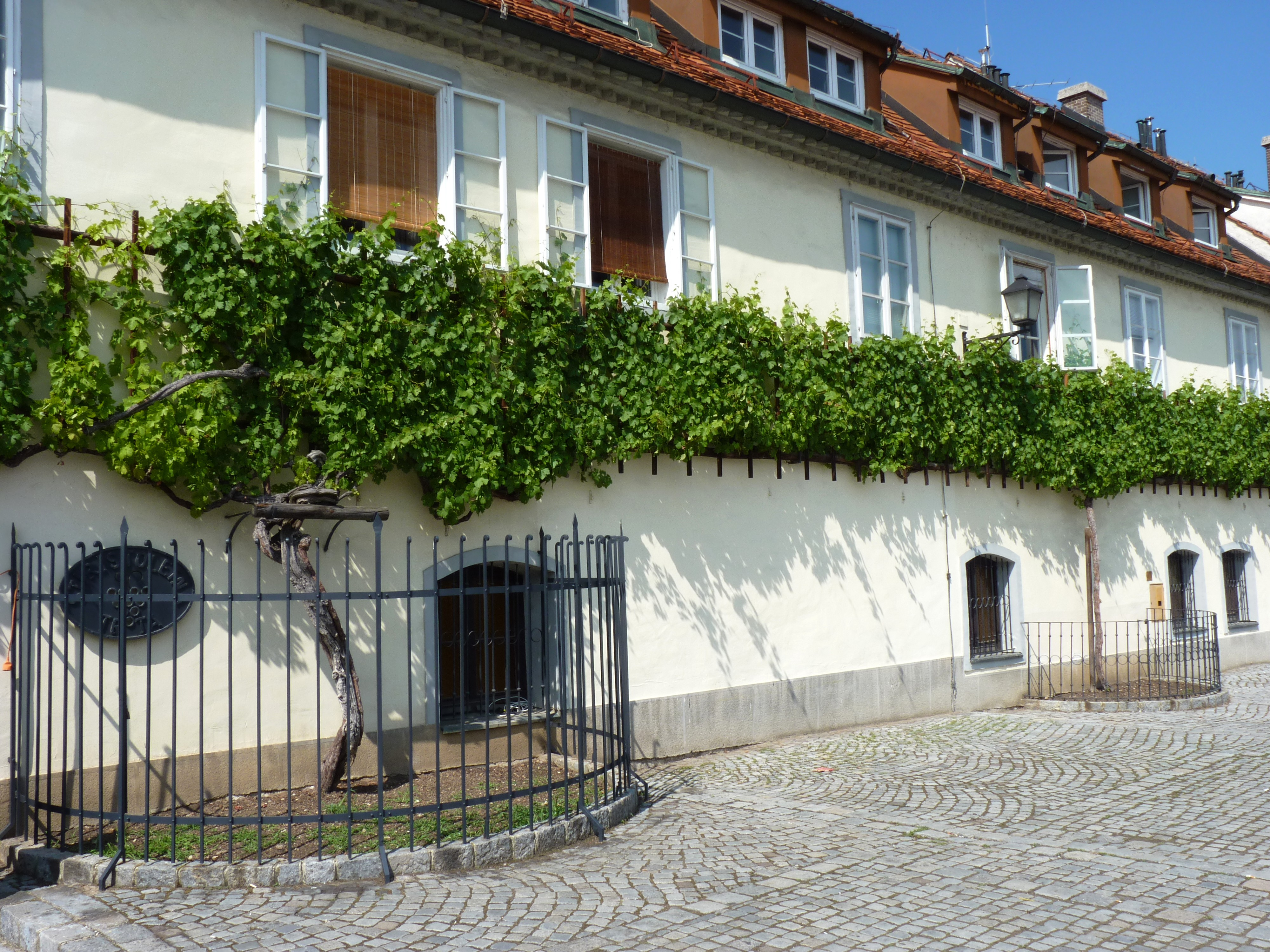 House of the oldest grapevine in the world (Hiša stare trte) - in Maribor is also the world's oldest living grapevine. The grapevine is about 440 years old.